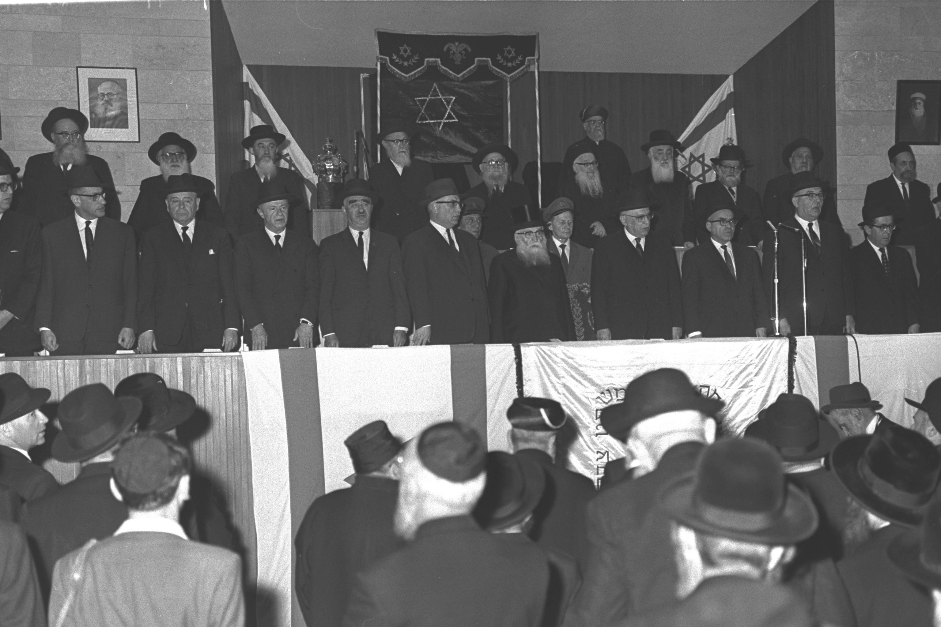 THE SINGING OF "HATIKVAH" AT THE OPENING OF THE INDUCTION CEREMONY OF RABBI YEHUDA UNTERMAN AS ASHKENAZI CHIEF RABBI AT HEICHAL SHLOMO IN JERUSALEM.